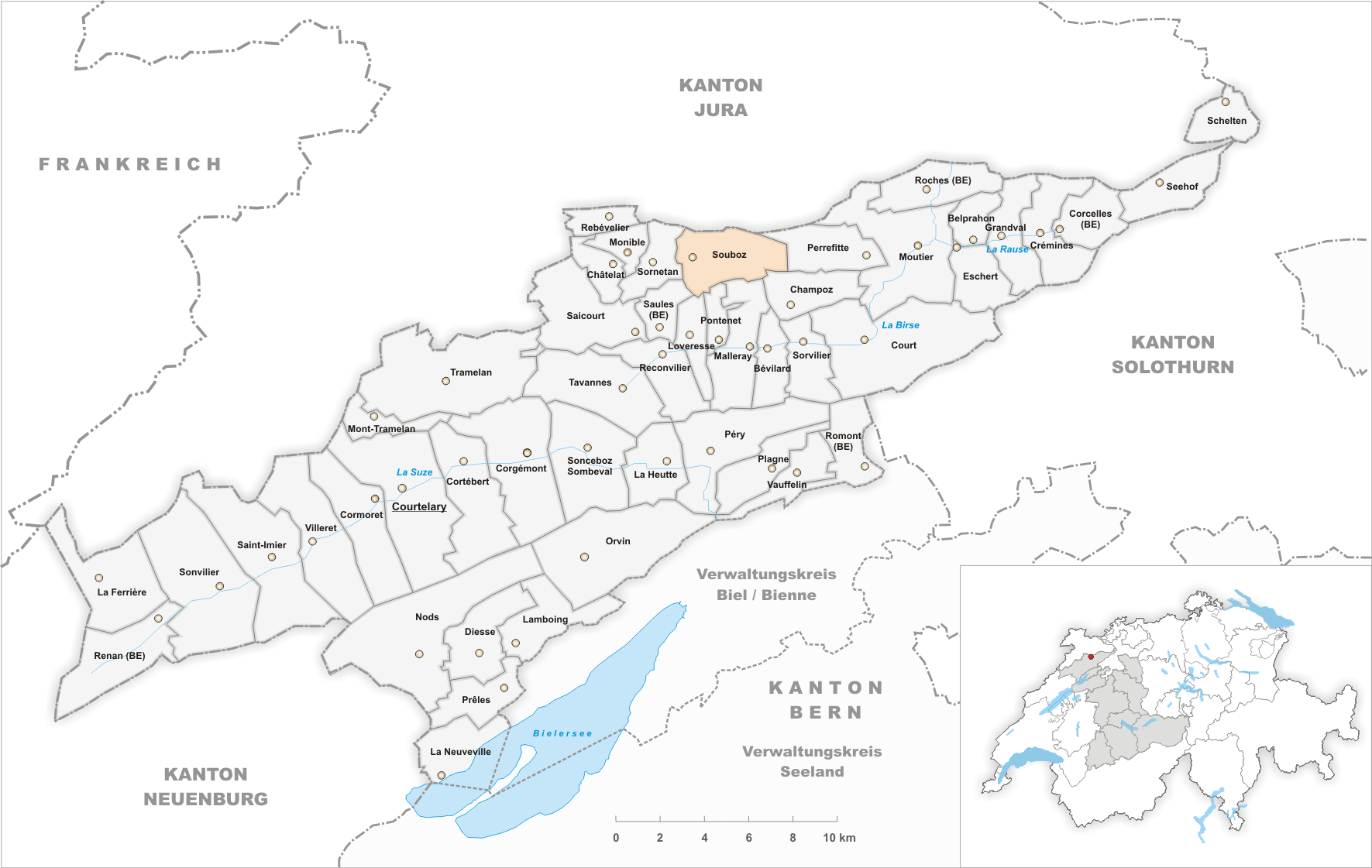 Municipality Souboz